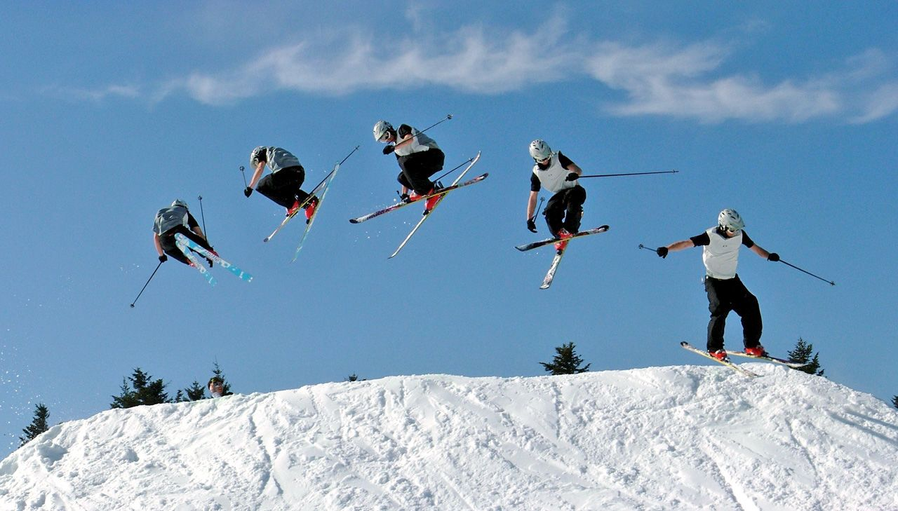 360 Cross- (Almost)